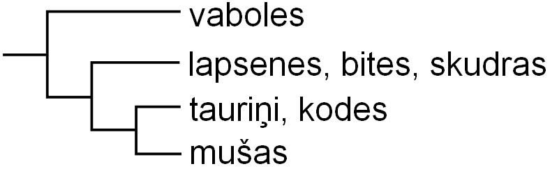 Typical example of a horizontally-oriented cladogram, with horizontal and vertical lines used to indicate relationships.